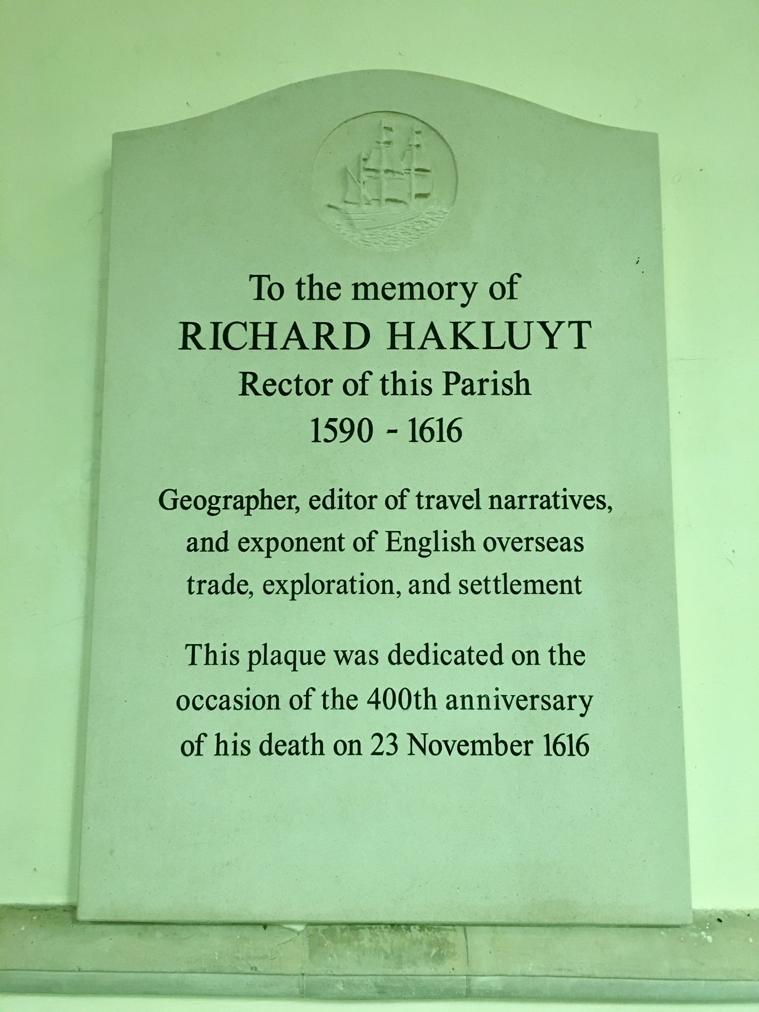 Memorial to Richard Hakluyt in the chancel of All Saint's Church, Wetheringsett, Suffolk